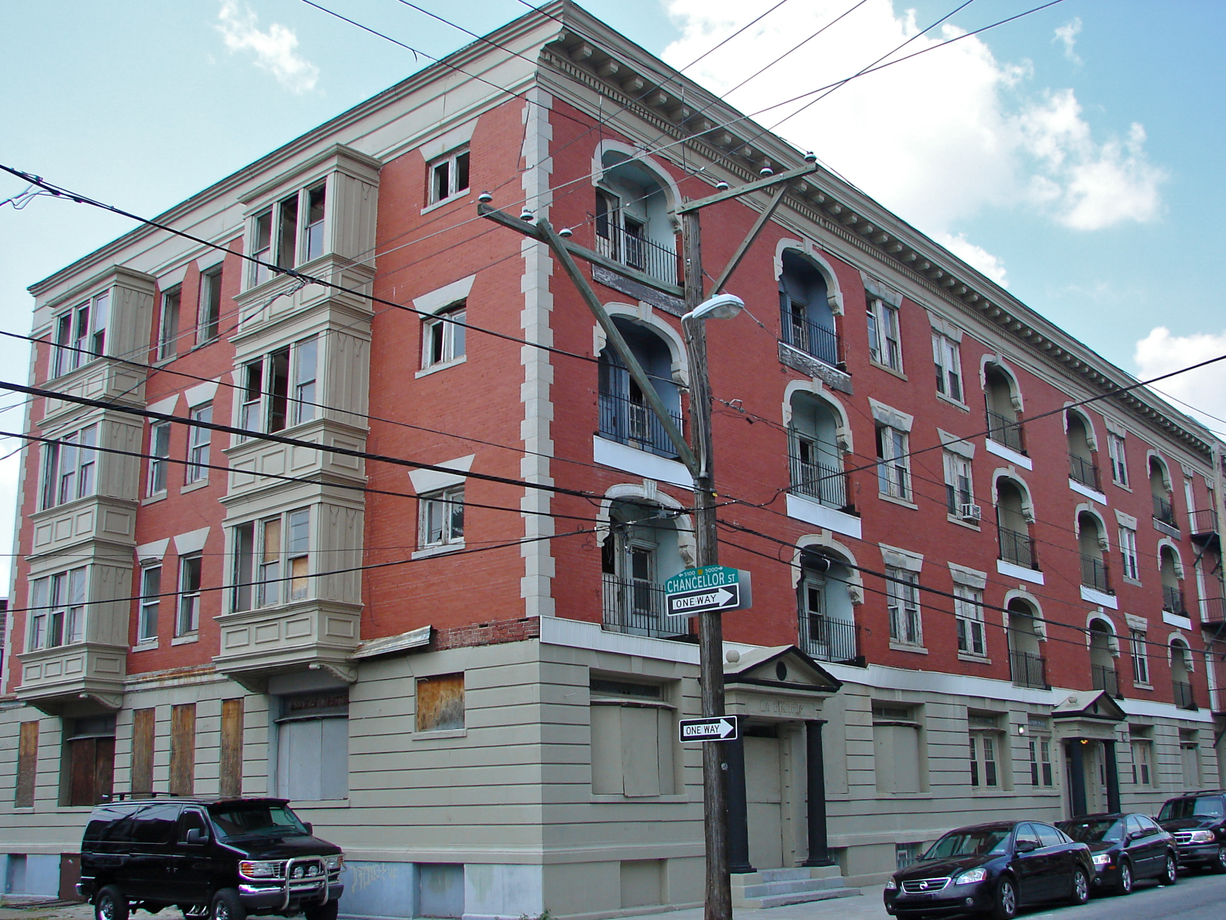 La Blanche Apartments on the NRHP since March 7, 1985. At 5100 Walnut Street in the Walnut Hill neighborhood of West Philadelphia. Photo from the corner of 51st Street (right) and Chancellor )left) showing the back of the appartments